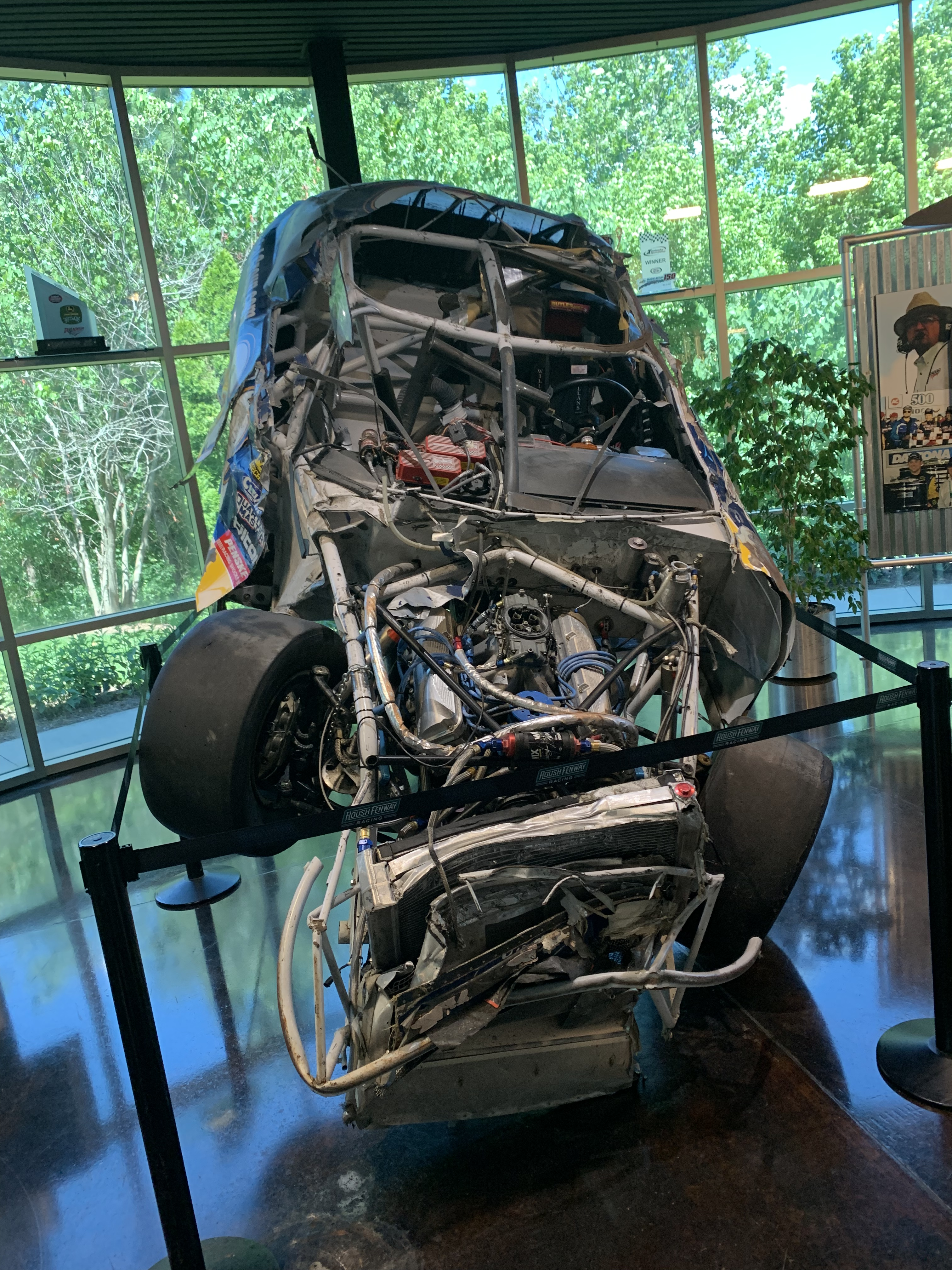 refer to caption